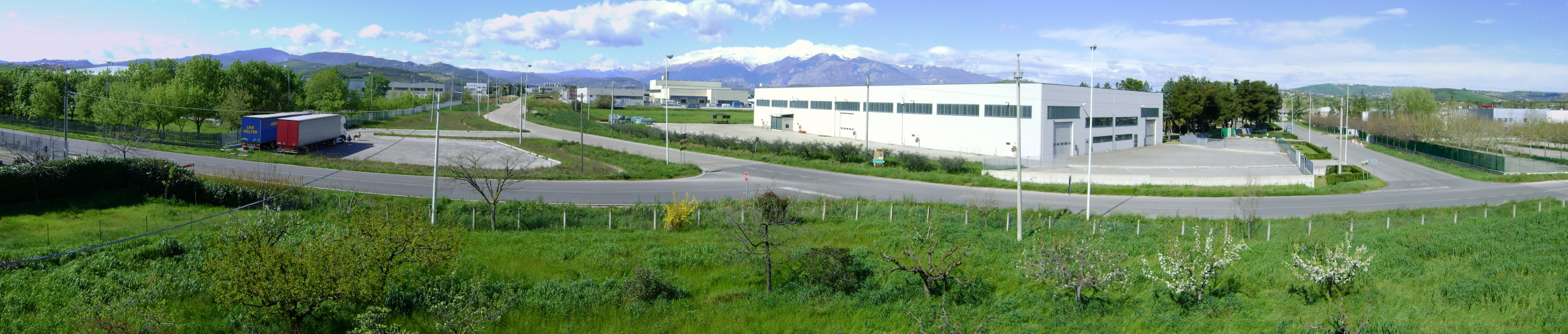 View of industrial agglomeration of Atessa (in Contrada Saletti), in the province of Chieti, Abruzzo